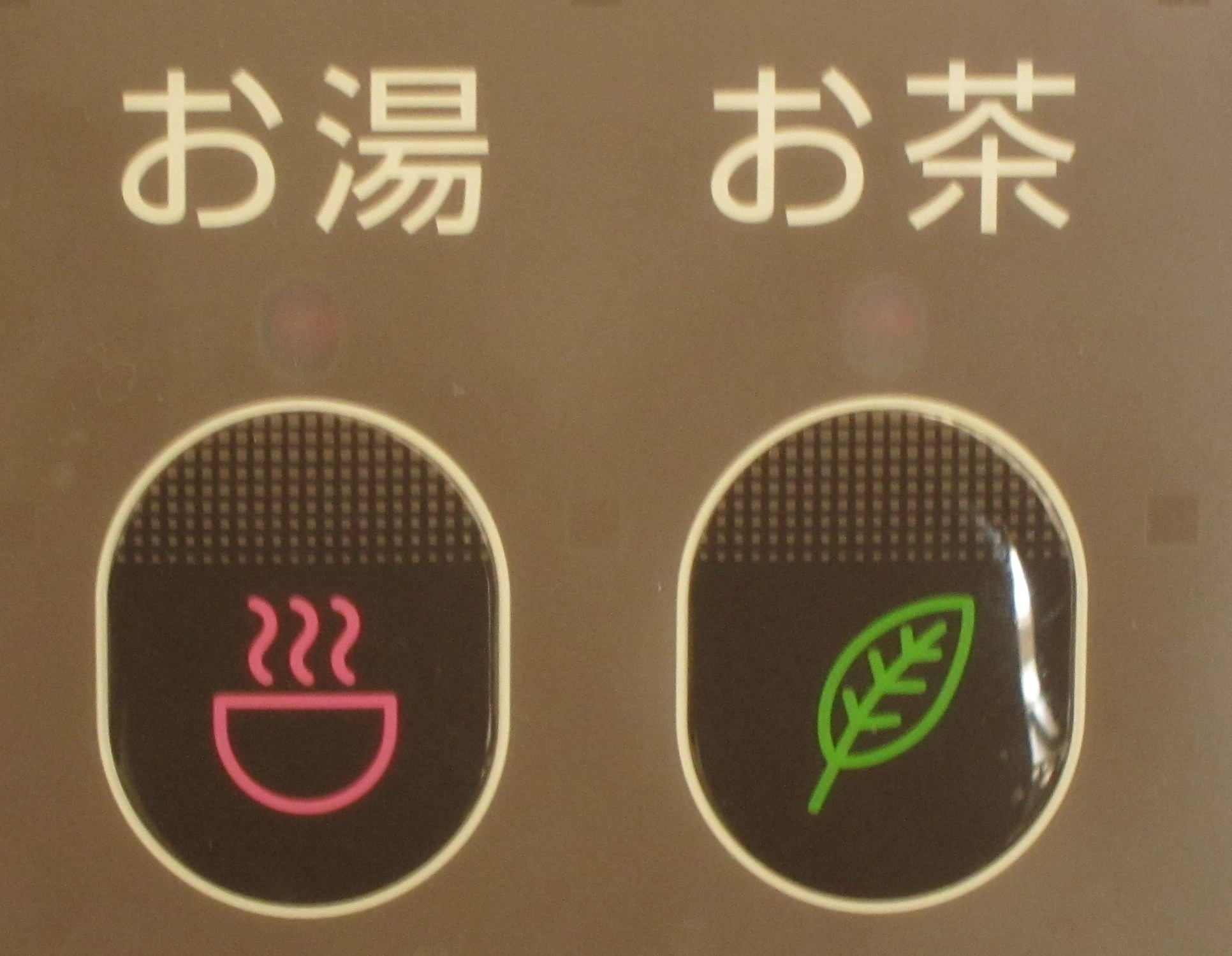 Buttons on a tea-making machines, showing use of お〜 prefix in お湯 and お茶.